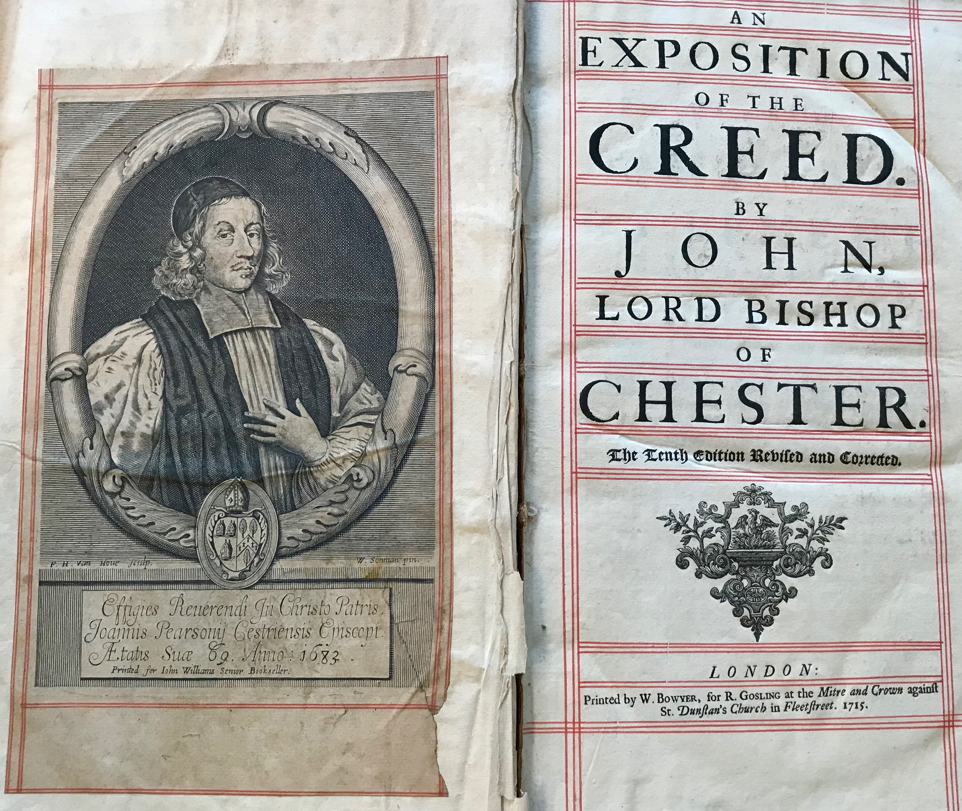 The frontispiece and title page of the tenth edition (1715) of "An Exposition of the Creed" by John Pearson, Bishop of Chester, from the library of Gordon J. Keddie.